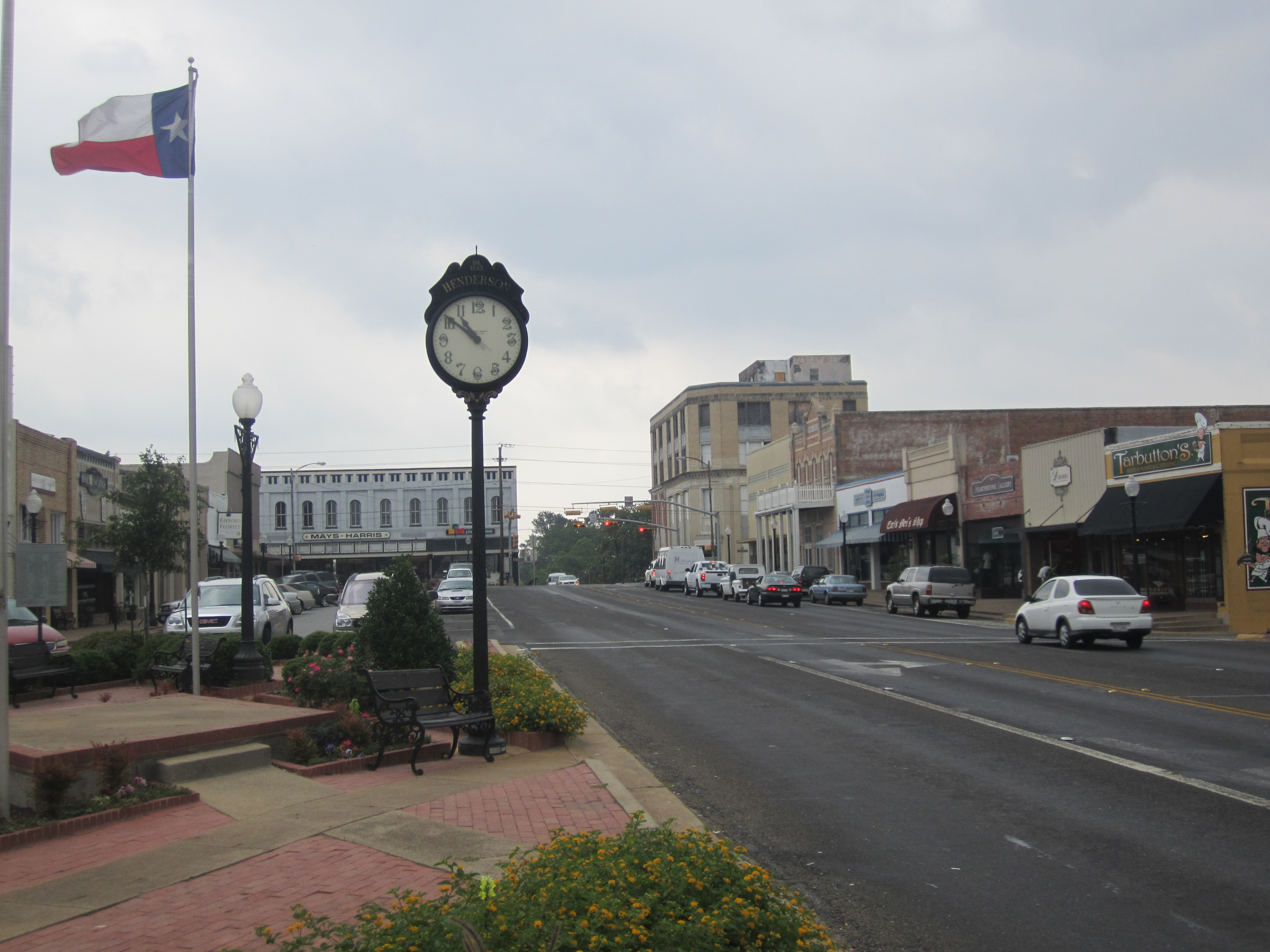 I took photo in Henderson, TX, with Canon camera.